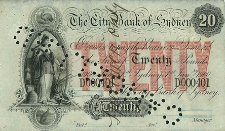 This is an example of private currency. It was issued by the City Bank of Sydney in Australia during the early part of the 20th Century.